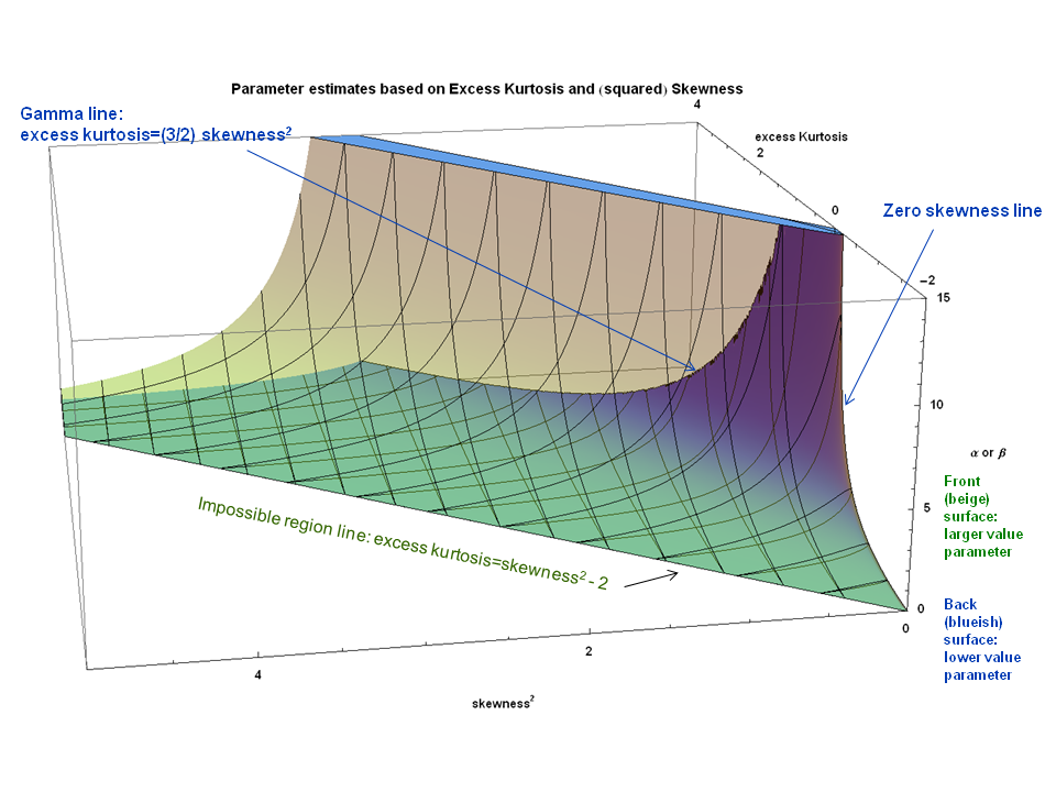 (alpha and beta) Parameter estimates vs. excess Kurtosis and (squared) Skewness Beta distribution - J. Rodal